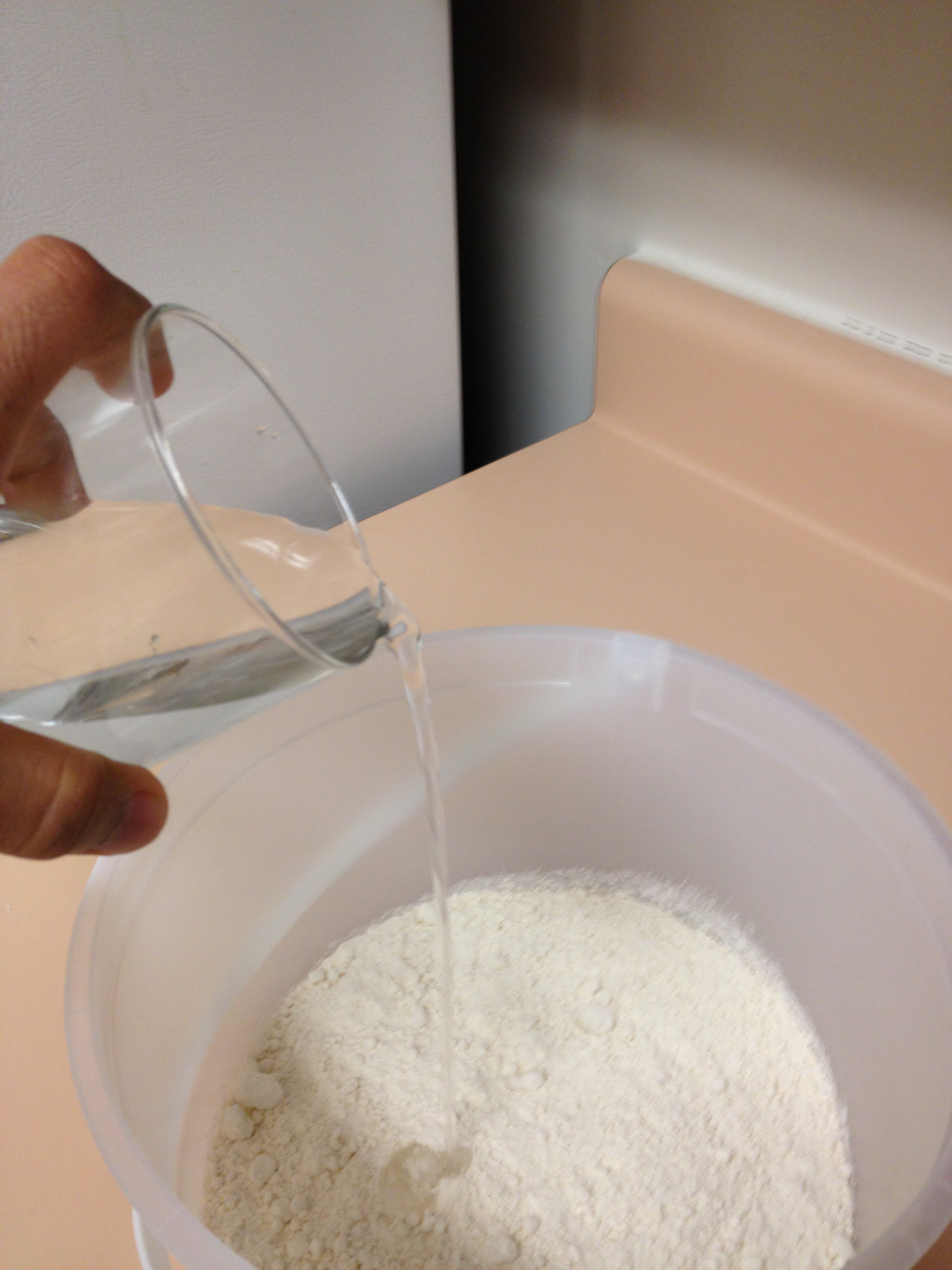 Flour and Water